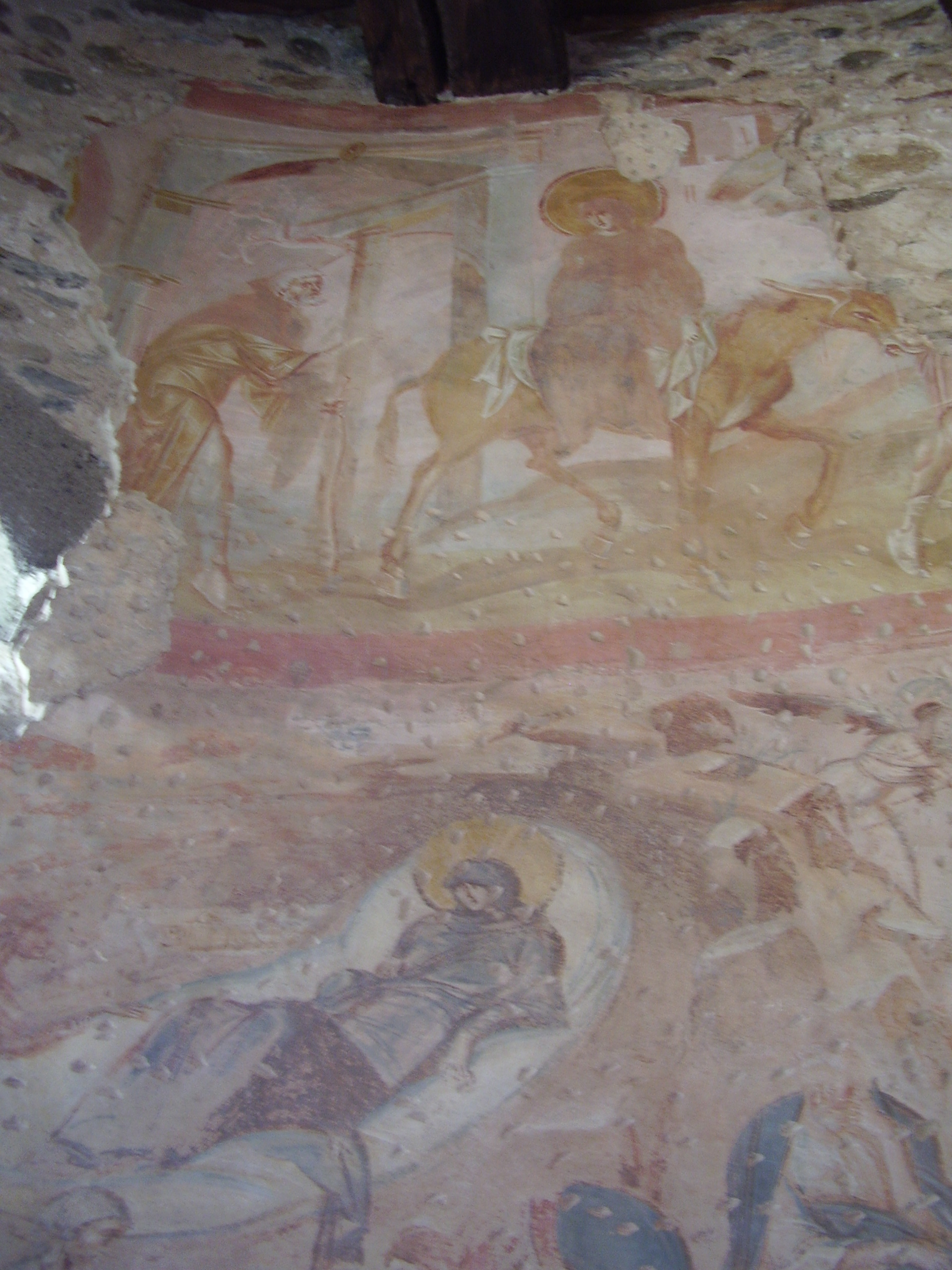 The frescoes in Castelseprio, the Nativity scene